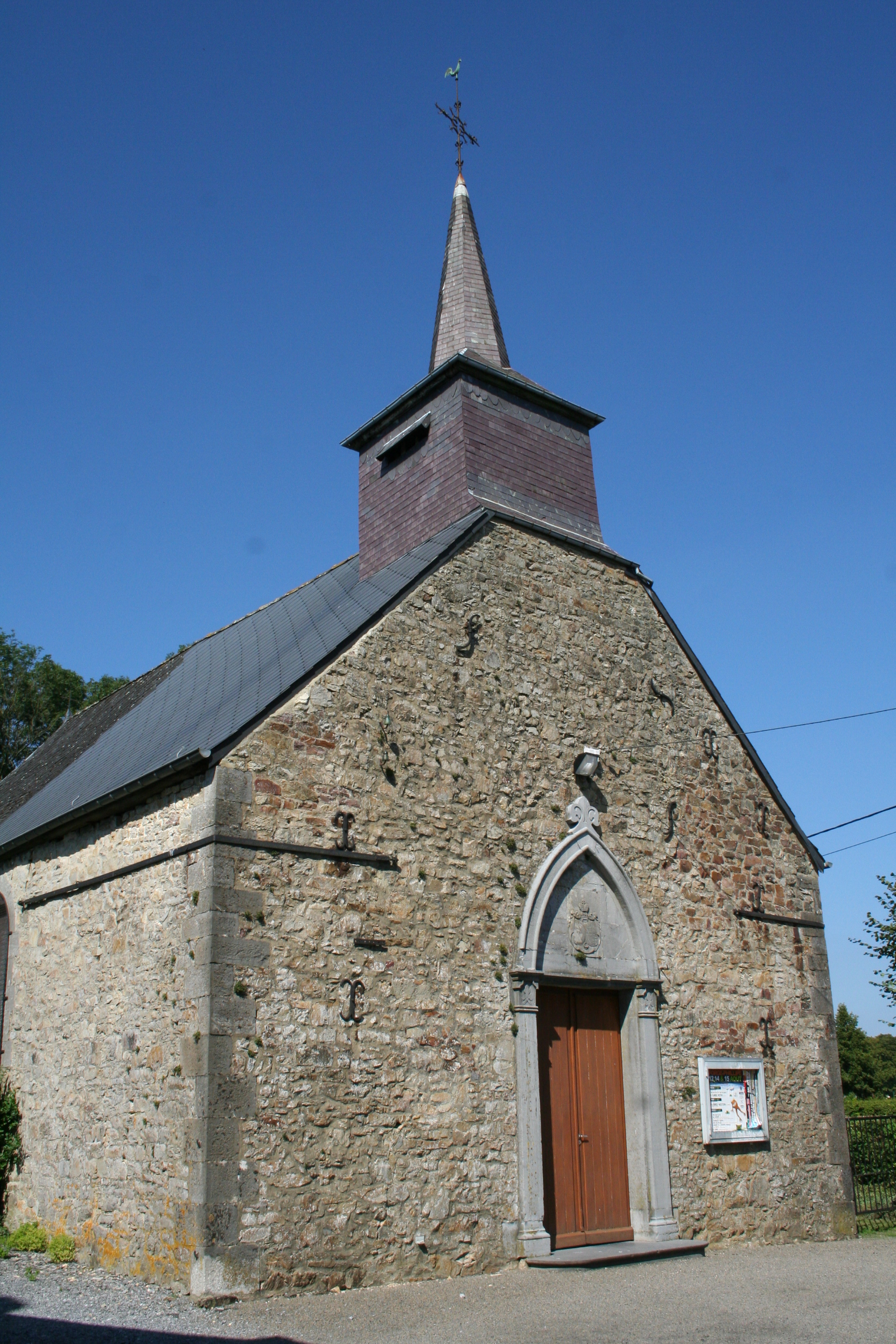 Forge-Philippe (Belgium), the Holy Virgin church (XVIIIth century).